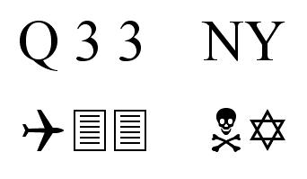 The windings "Hoax"